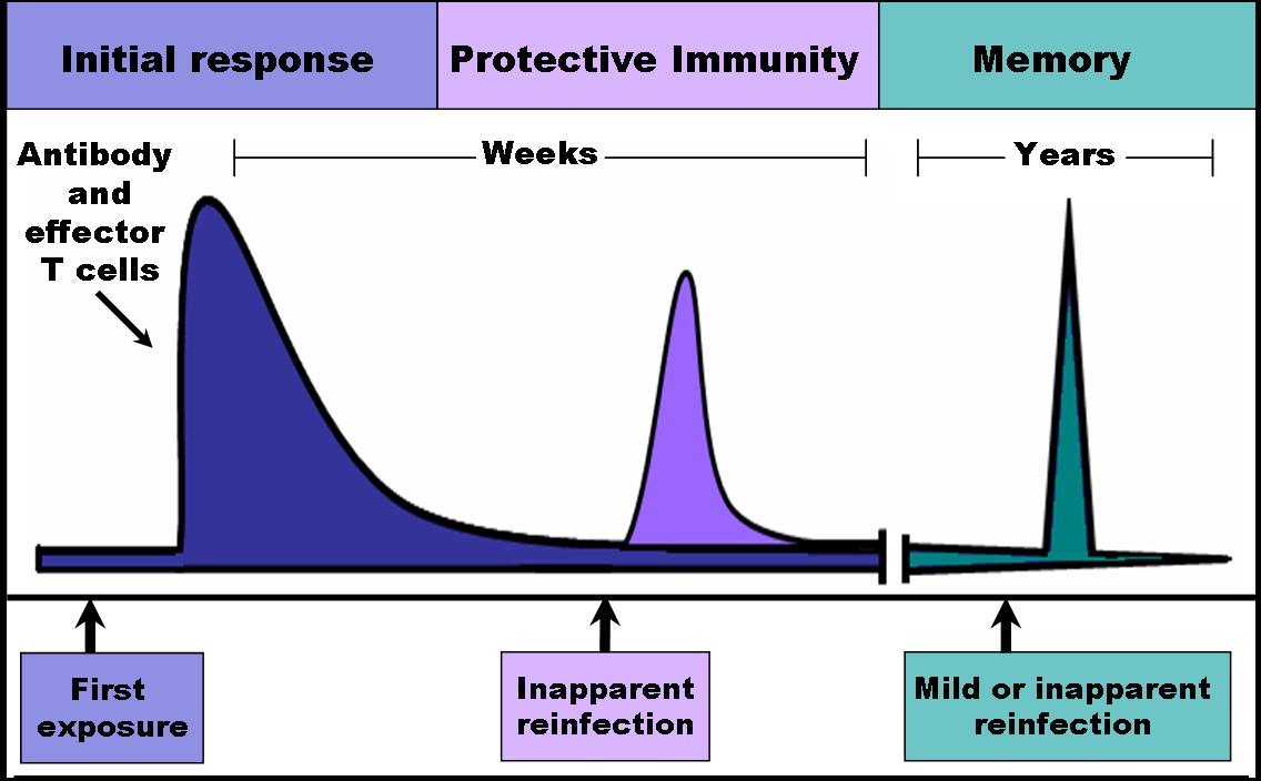 The time course of an immune response. Immune reactants, such as antibodies and effector T-cells, work to eliminate an infection, and their levels and activity rapidly increase following an encounter with an infectious agent, whether that agent is a pathogen or a vaccine. For several weeks these reactants remain in the serum and lymphatic tissues and provide protective immunity against reinfection by the same agent. During an early reinfection, few outward symptoms of illness are present, but the levels of immune reactants increase and are detectable in the blood and/or lymph. Following clearance of the infection, antibody level and effector T-cell activity gradually declines. Because immunological memory has developed, reinfection at later time points leads to a rapid increase in antibody production and effector T cell activity. These later infections can be mild or even inapparent.